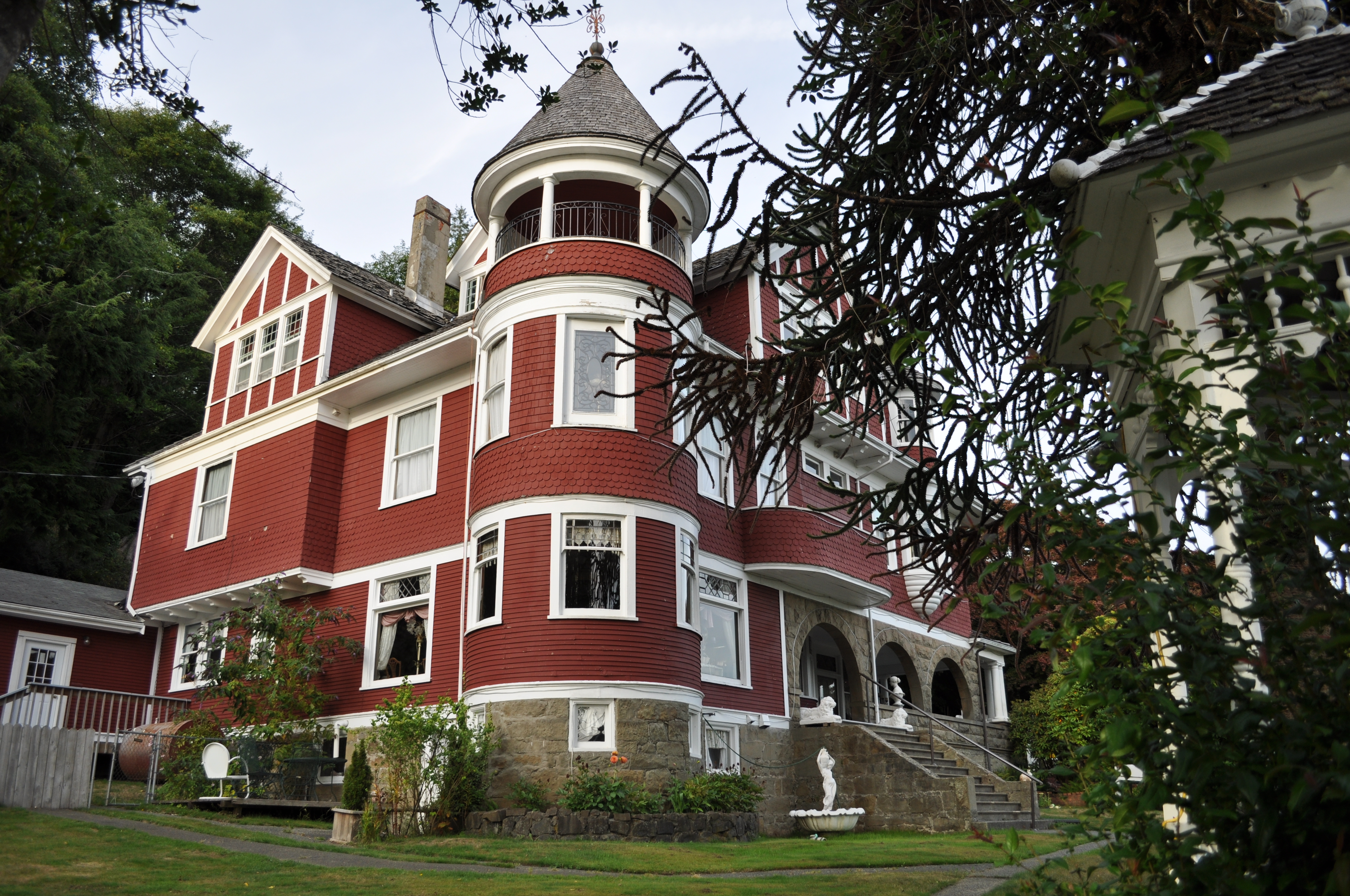 Hoquiam's Castle, 515 Chenault Avenue, Hoquiam, Washington, USA. The 20 room mansion, built 1897, is on the National Register of Historic Places, and now functions as a bed and breakfast.